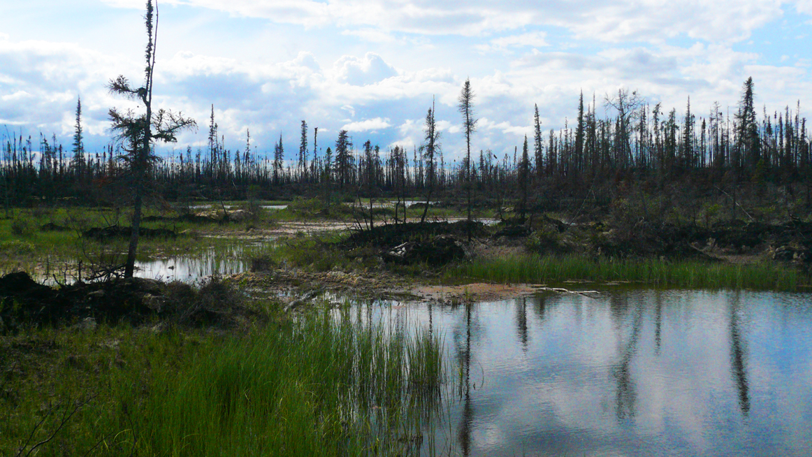 Bush near Rae Edzo, NWT